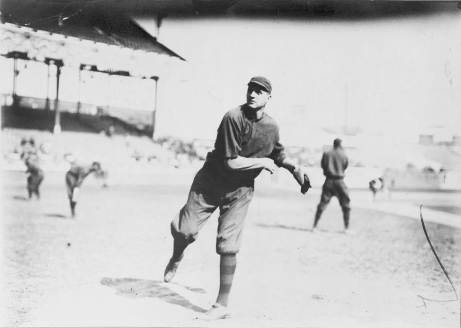 "Seattle Bill" James (i.e. William Lawrence James), a pitcher in Major League Baseball, appearing here with the Boston Braves. Not to be confused with "Big Bill" James (i.e. William Henry James), another pitcher active at the same time.